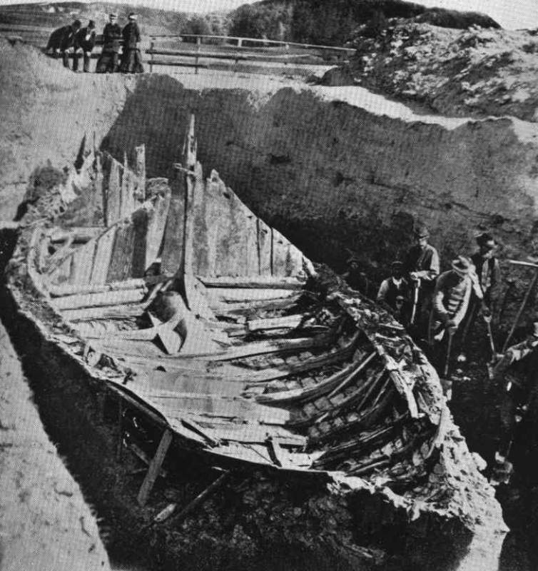 From the excavation of the Gokstad viking ship at the farm Gokstad in Sandefjord, Norway Photographed in ~1880, PD after Norwegian copyright laws because the photographer has been dead for over 70 years.